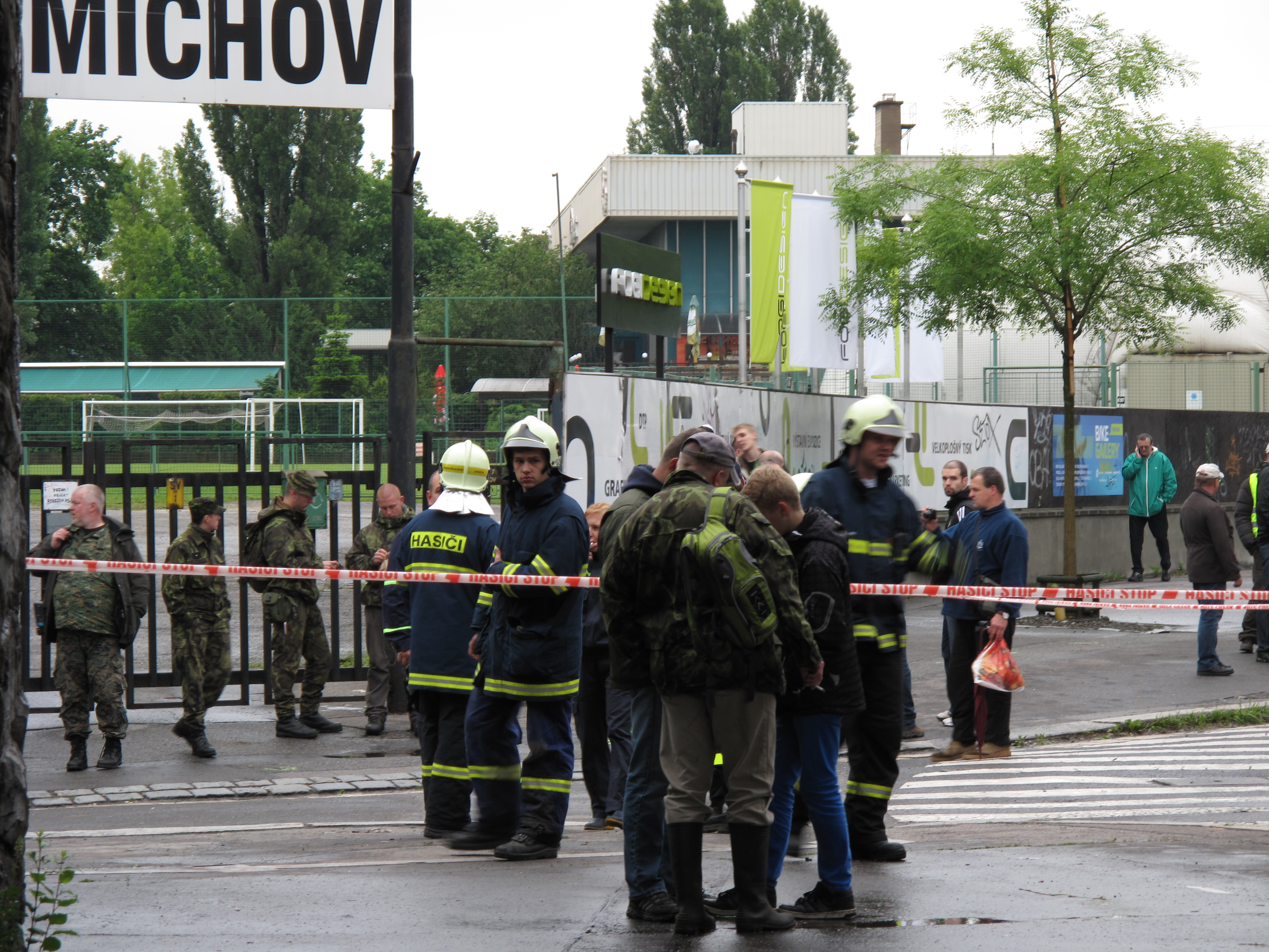 2013 floods in Prague, Czech Republic.